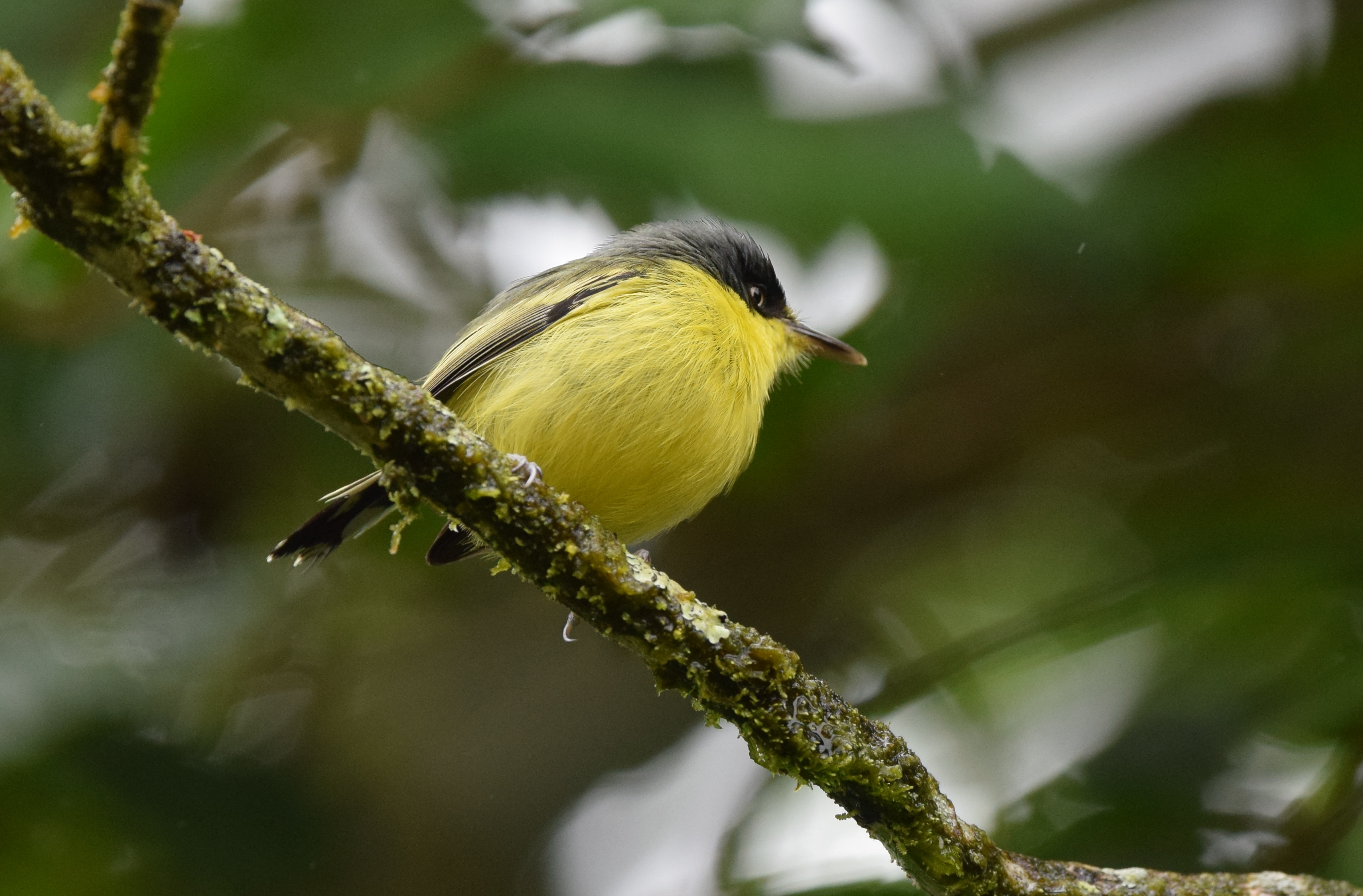 Rancho Naturalista 2/9/16 Costa Rica